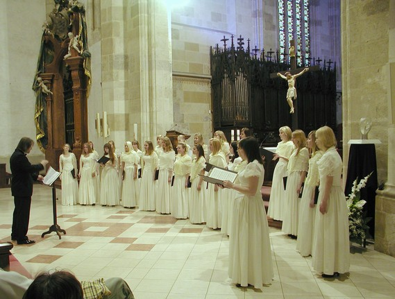 Estonian TV Girls' Choir at St Martin's cathedral in Bratislava